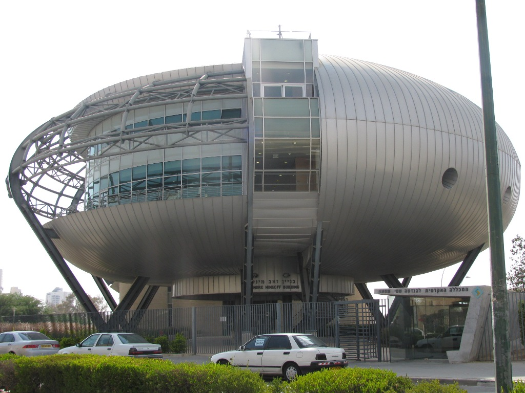 Unique structure of the College of Engineering in Beer Sheva, Sammy Shameun